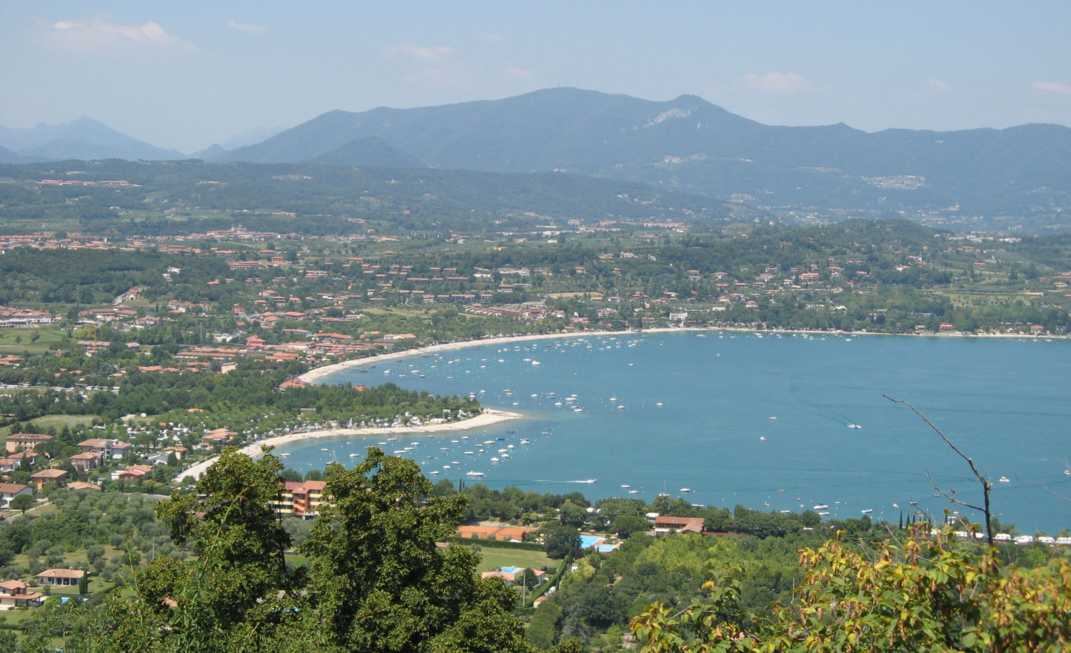 a town Manerba del Garda in Italy located at the lake Garda (south-west). This picture was taken on a hill Rocca di Manerba. A view to the north. Manerba and nearby cities, lake Garda and mountains behind Salo can be seen.